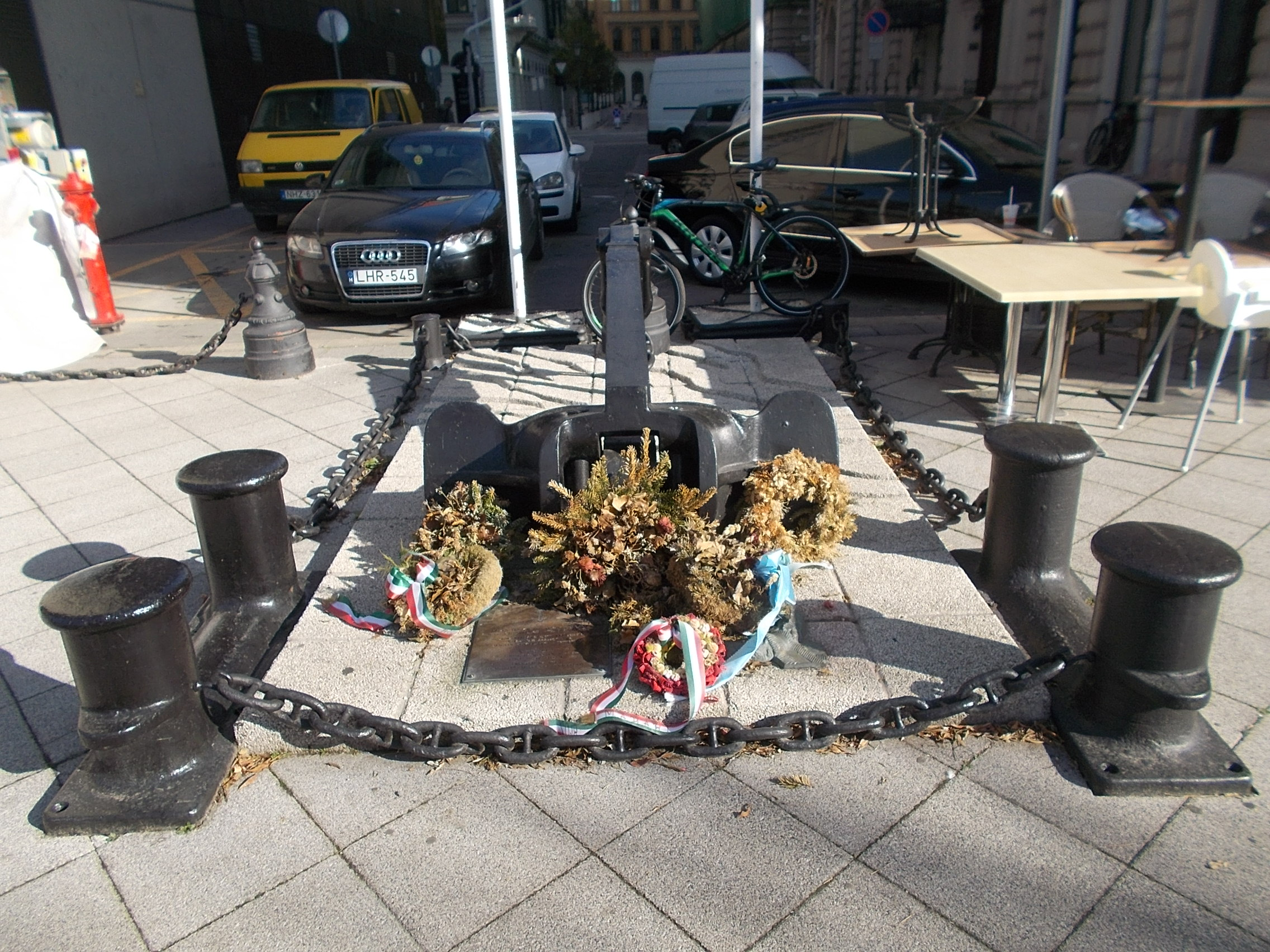 Sailor monument (1993) mooring posts, chain, Ungvár (ship) anchor replica, bronze plaque next to it, laurel wreath with Hungarian coat of arms. About the Ungvár: On November 9, 1941, south of Odessa (Ukraine), ran to a mine. The explosion of hundreds of tons of air bombs and gasoline, which was a cargo, tore the ship into billions of pieces. Twelve Hungarian sailors, Captain Milassin Lieutenant (the Commander of the ship), 28 German soldiers, five officers and a Korvettenkapitän / Ship-of-the-line captain. - Danube Promenade, Belváros-Lipótváros, Budapest.